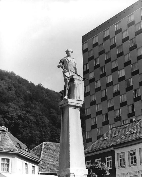 Gun smith memorial in Suhl, Thuringia, Germany.